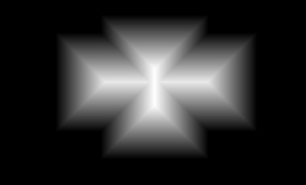 This is the resulting image from a distance transform.